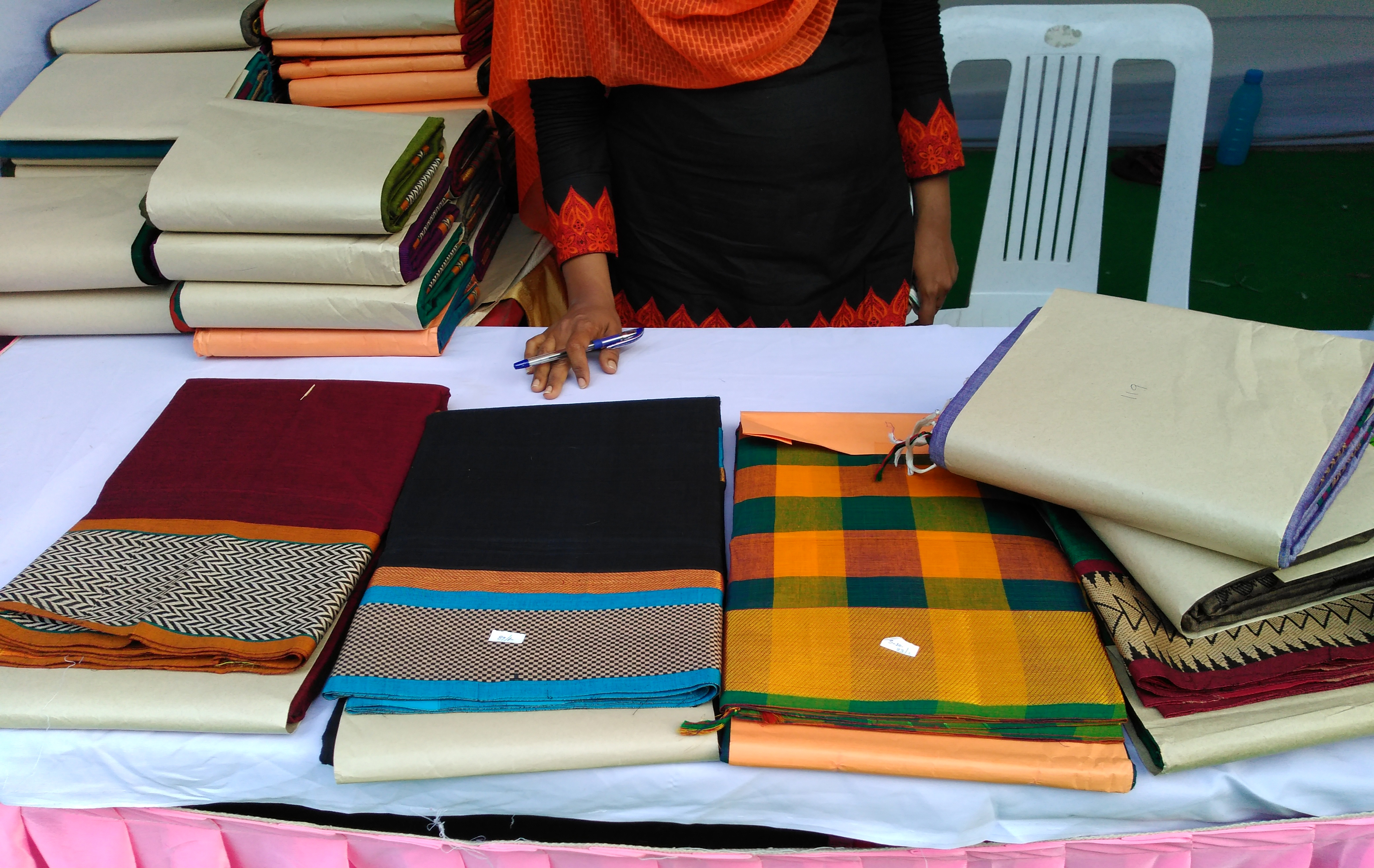 తెలుగు ప్రపంచ మహాసభల వద్ద దృశ్యాలు,వ్యక్తులు,సమావేశాలు